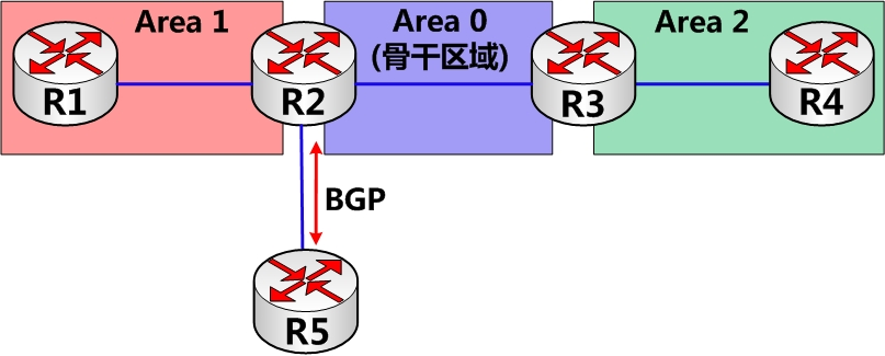 This figure shows some different OSPF router types.R2 is a backbone router,also it is a ABR and ASBR.R3 is a ABR,R1 and R4 are internal routers.